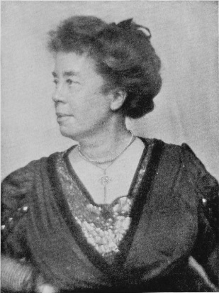 Black & white photograph of Elizabeth Amelia Sharp (1864-1932).